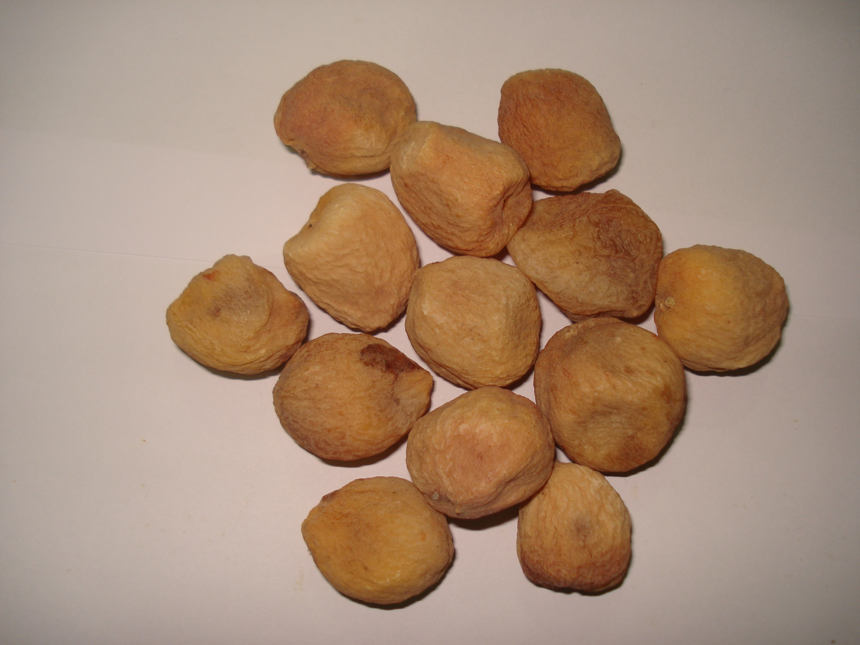 Khobani khushak